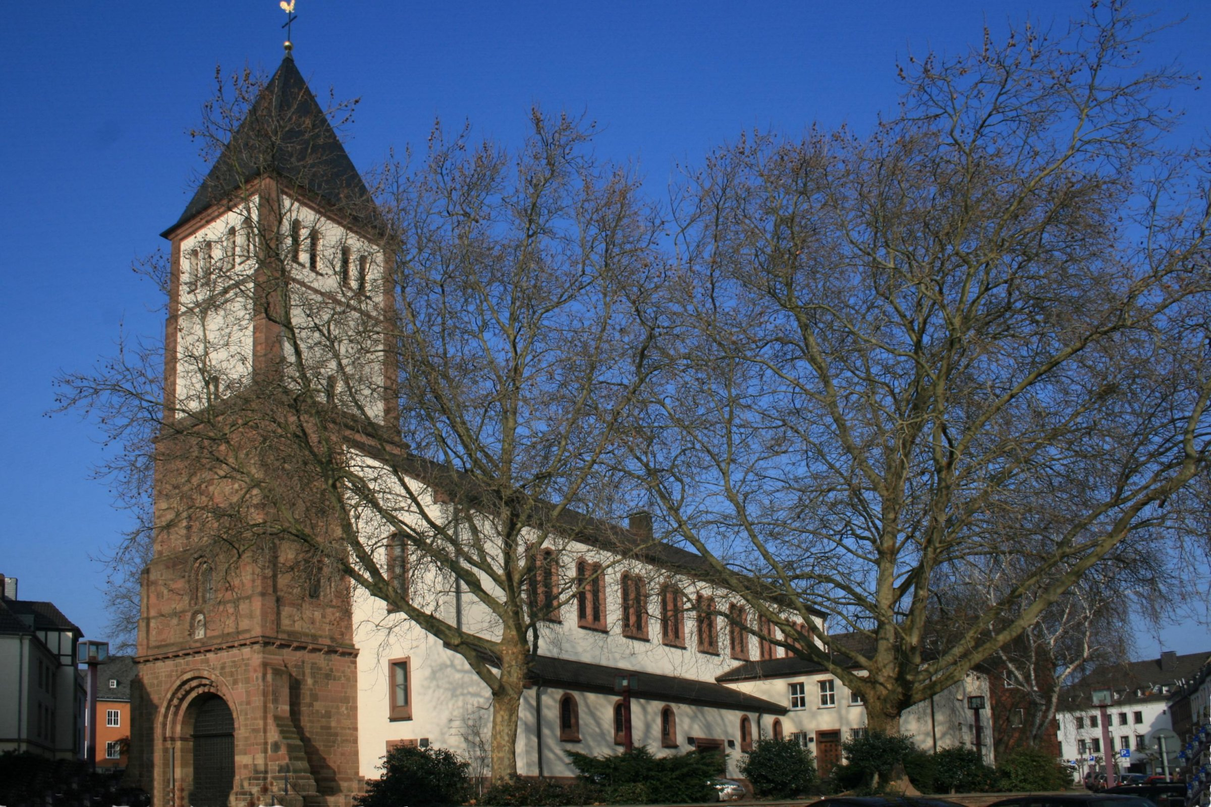 Cultural heritage monument No. 6 in Jülich